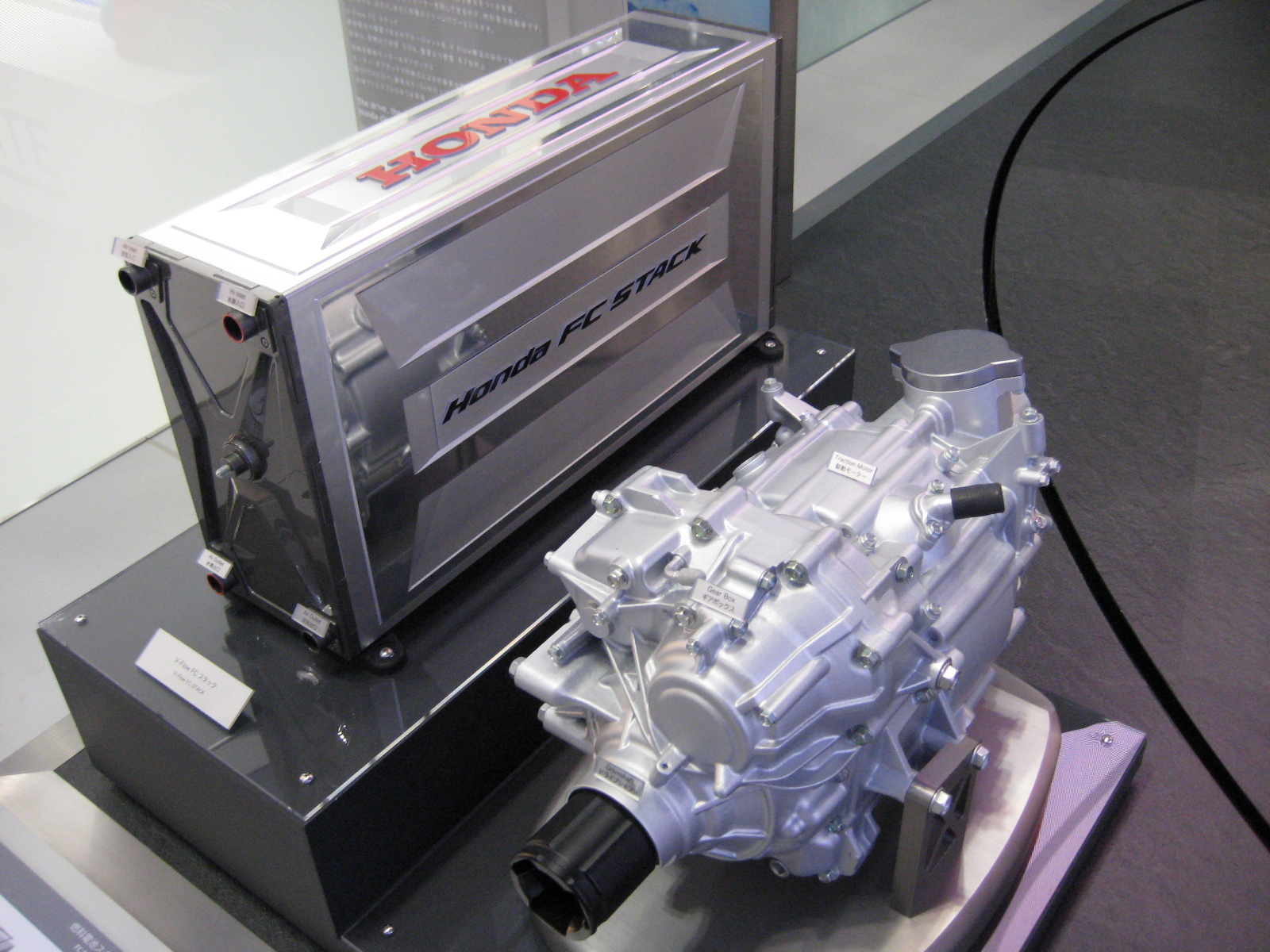 Honda FC STACK and Gearbox in Tokyo Motor Show 2007